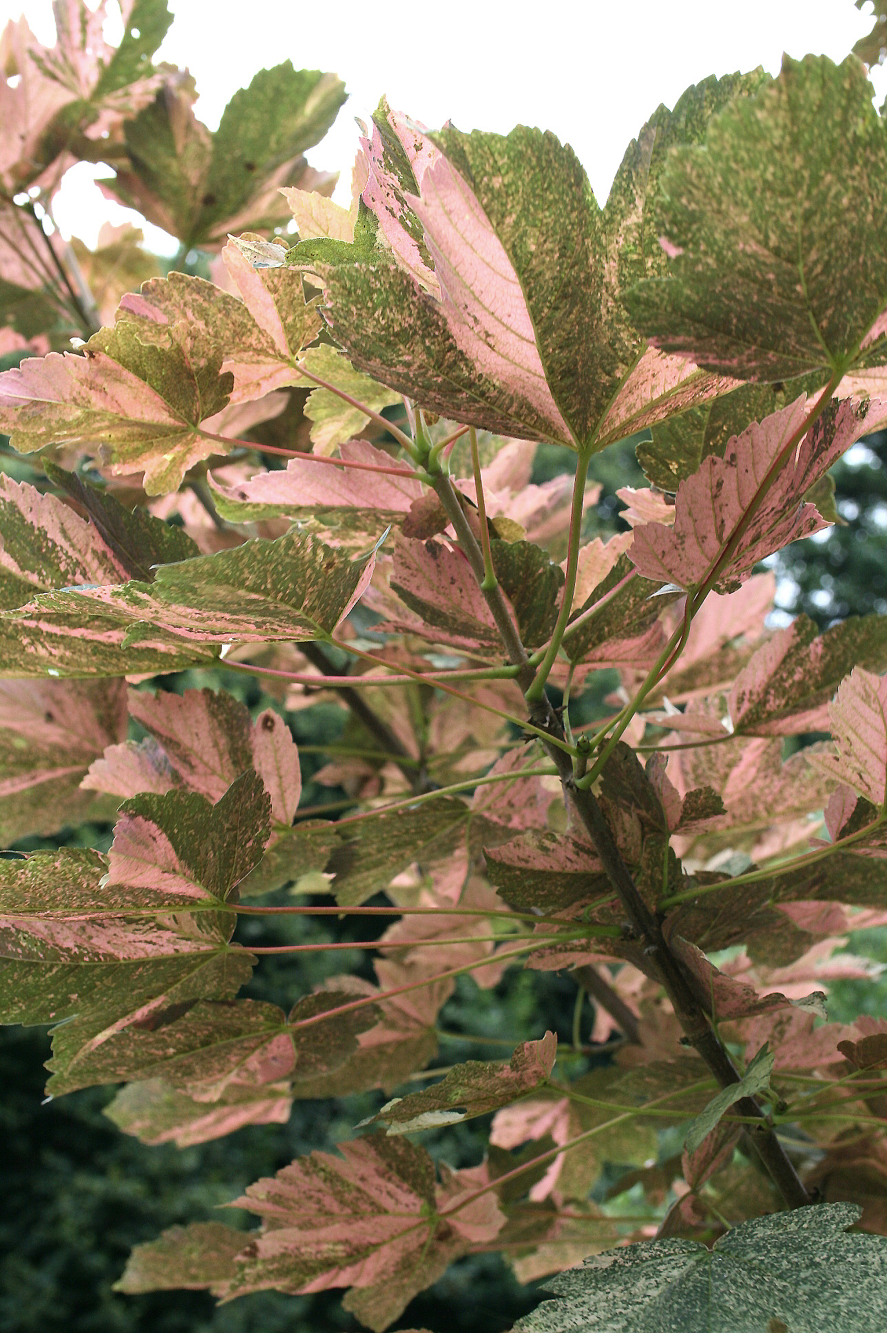 Acer pseudoplatanus 'Nizetii' leaves Precise location : Arboretum Robert Lenoir (S52) - Rendeux (Belgium). Walon: Fouyes d'Érâbe sycomôre 'Nizetii' Acer pseudoplatanus 'Nizetii' Place rècta: Arboretum Robert Lenoir (S52) - Rindeu (Bèljike).